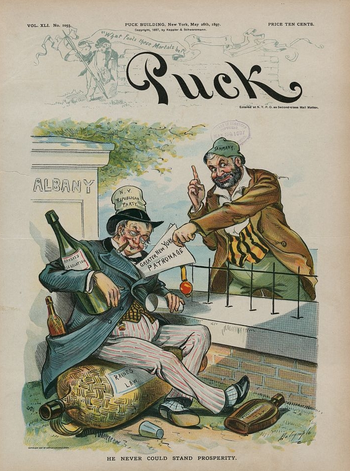 He never could stand prosperity, by Louis Dalrymple; Published by Keppler & Schwarzmann, May 26, 1897, Library of Congress